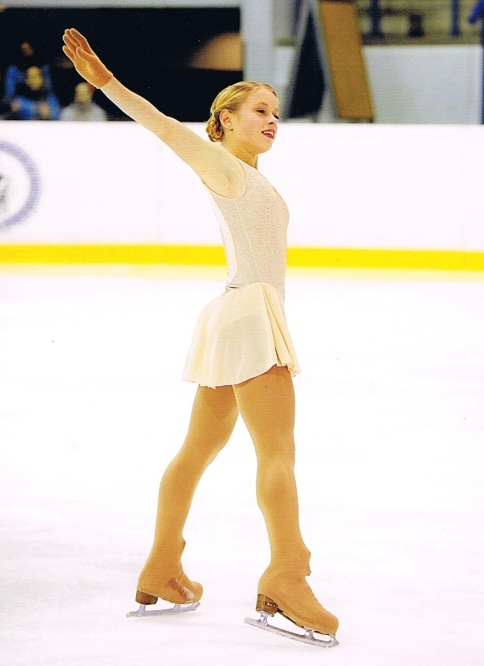 ISU JGP Riga cup 2013